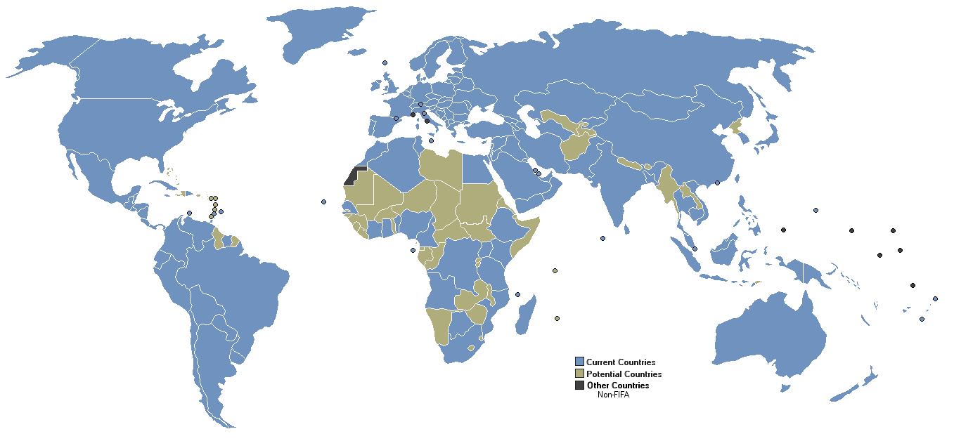 Mapa con los 140 países disponibles en Hattrick hasta la temporada 75 inclusive.